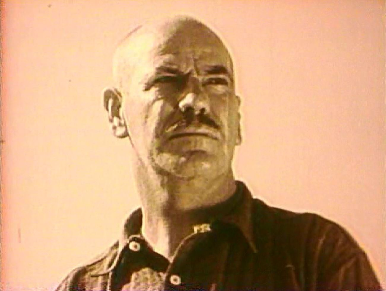 Low resolution screenshot of J. P. McGowan as Ed Hicks in the American public domain western film Arizona Days (1928).